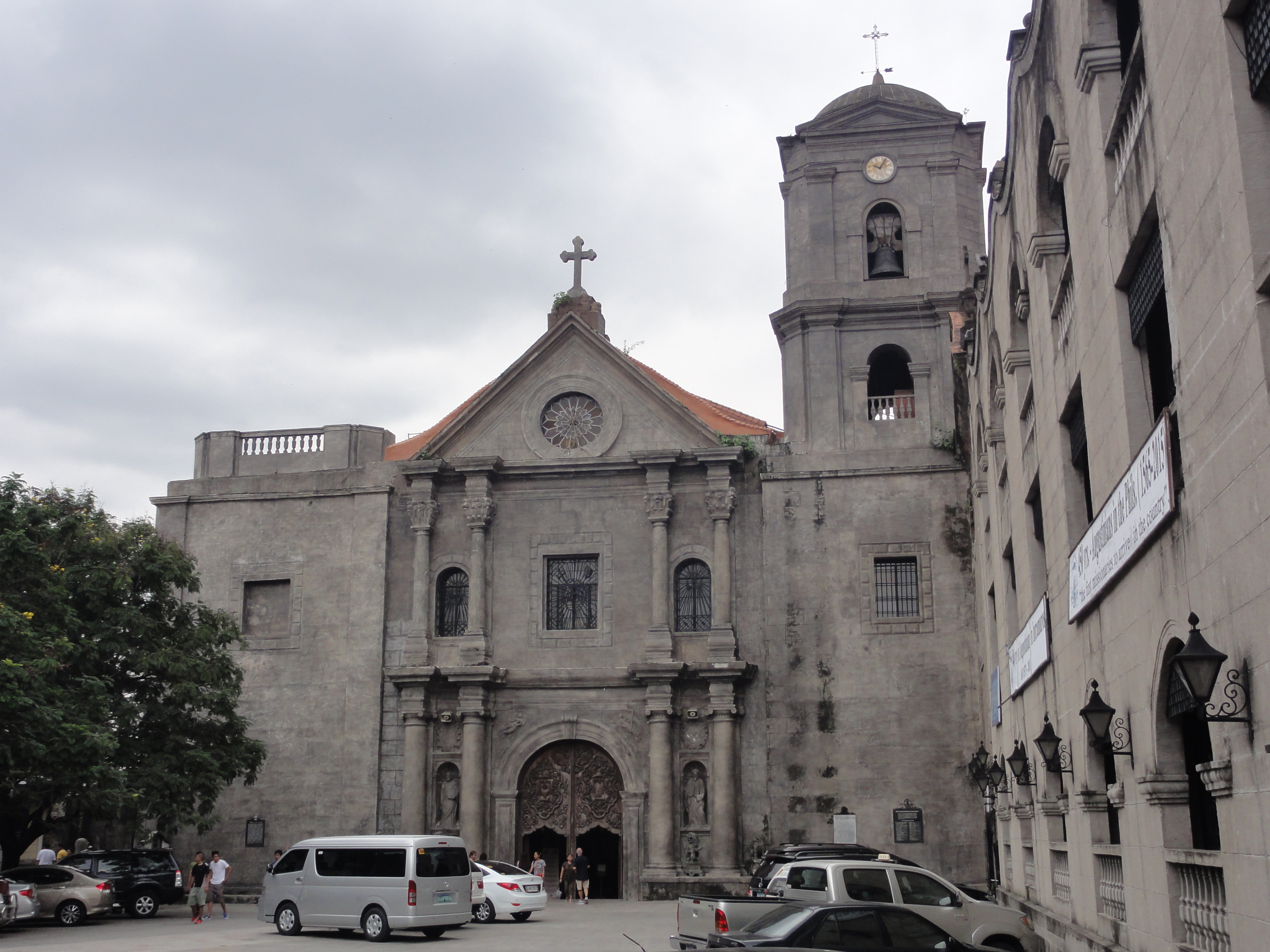 Front view of the historic San Agustin Church in Intramuros, Manila as of October 2014. It is known for being one of the oldest religious buildings in the city of Manila.